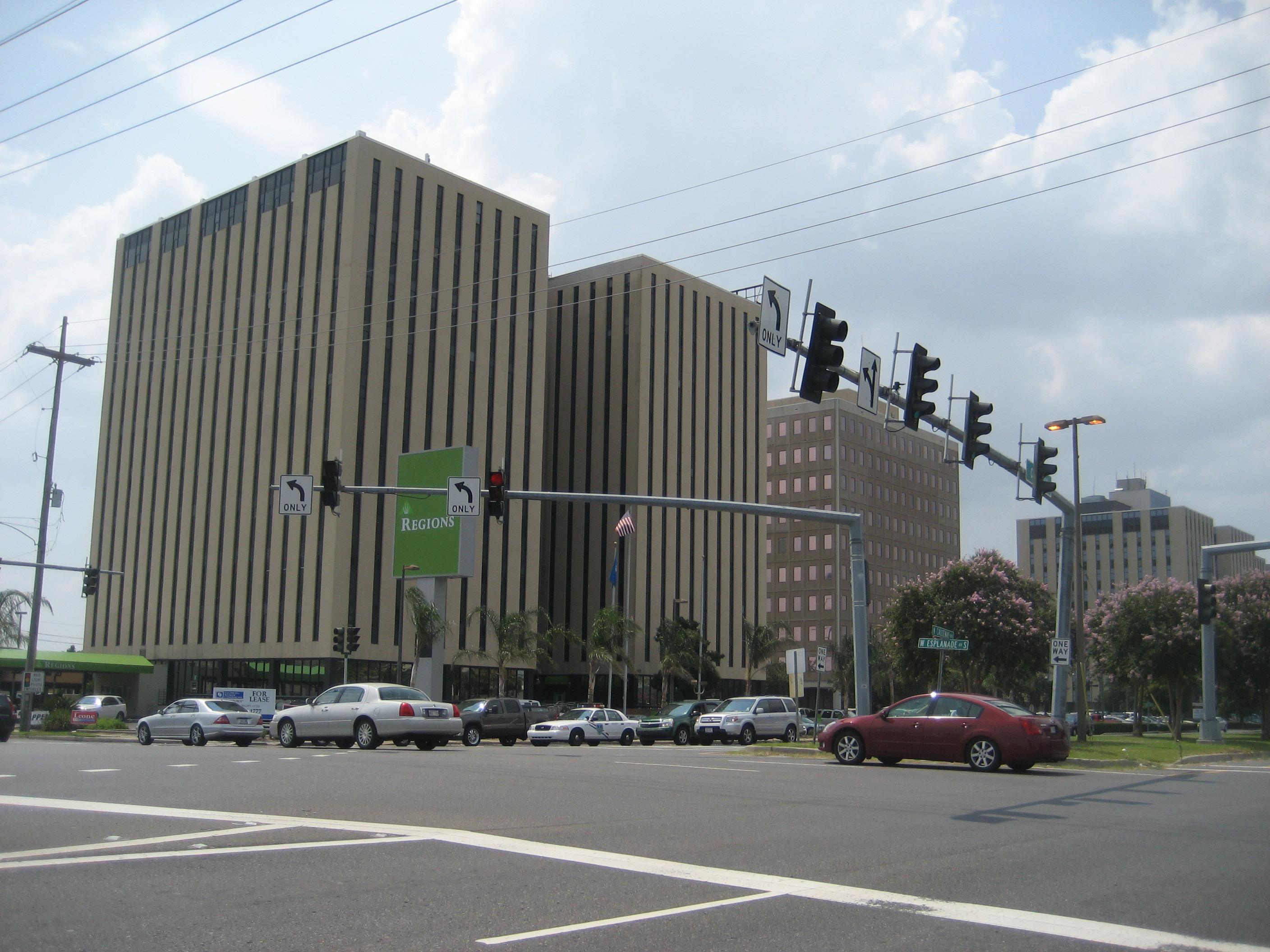 Metairie, Louisiana. Causeway Boulevard at West Esplanade.